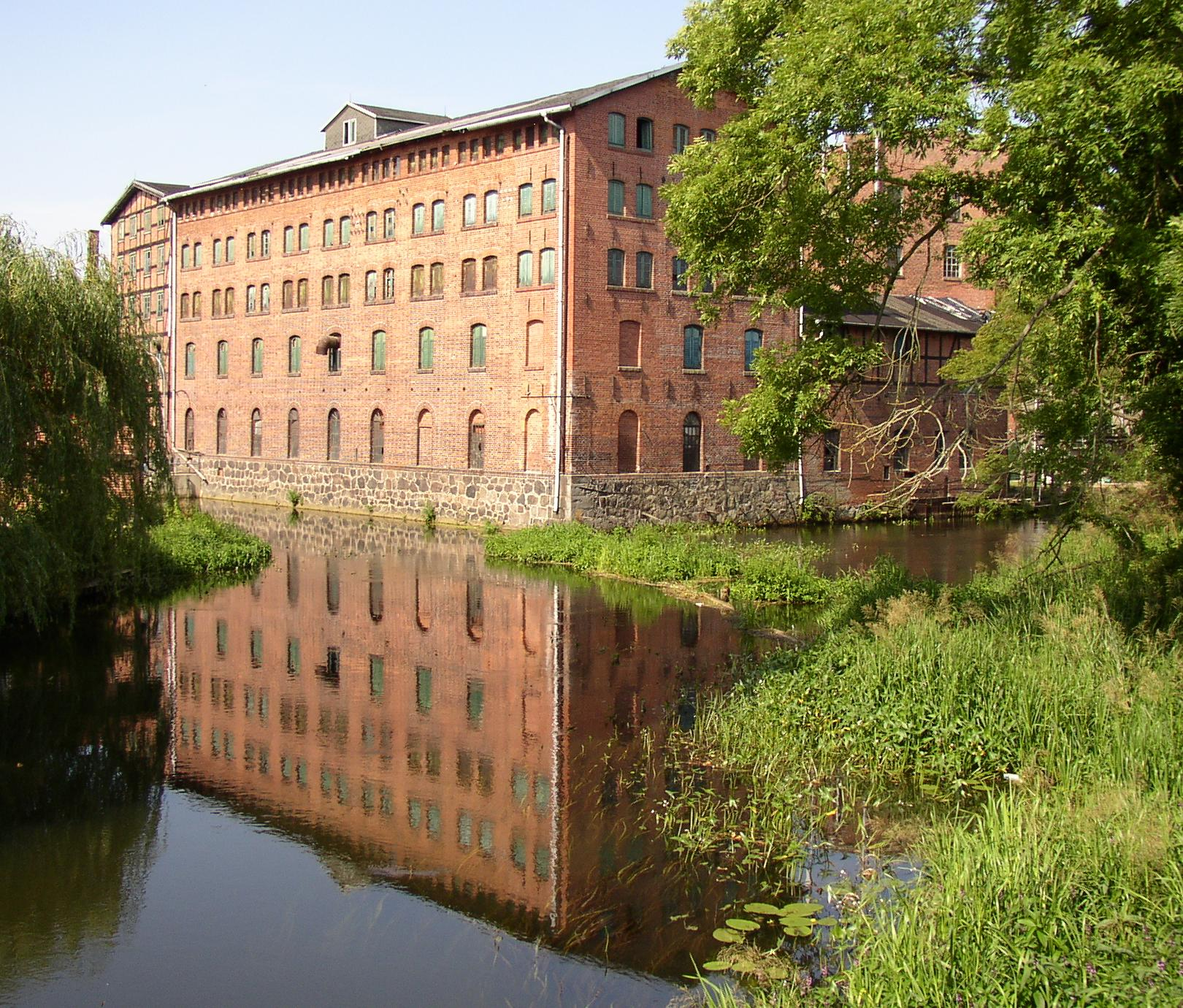 Former mill in Grabow in Mecklenburg-Western Pomerania, Germany